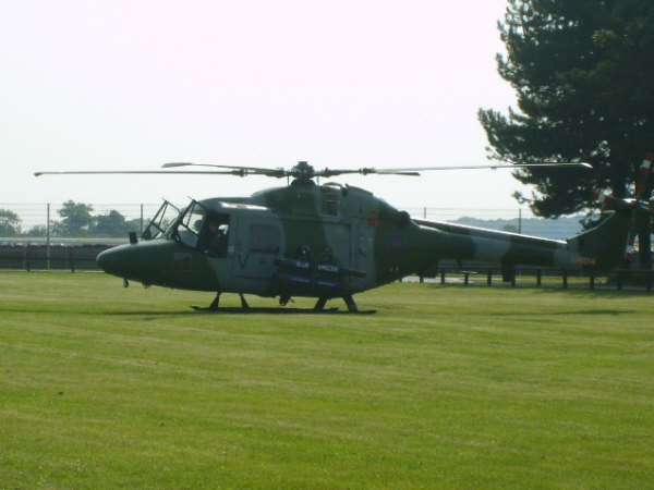 A Blue Eagles Lynx at Britcar